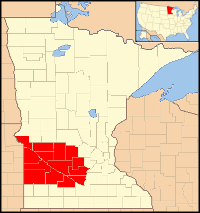 Map of the Catholic diocese of New Ulm in the USA.